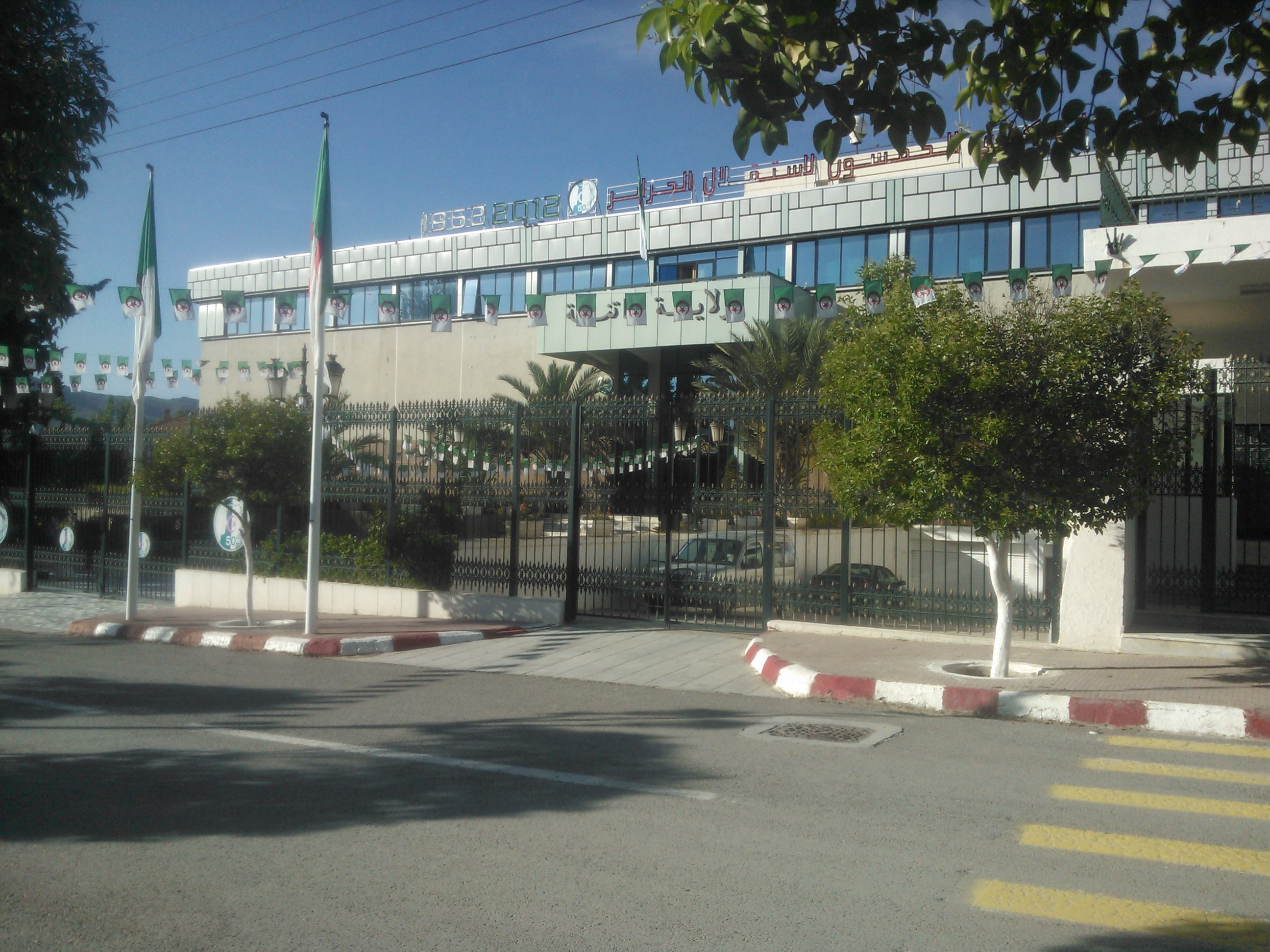 PhotoA provincial headquarters of the mandate of Batna .